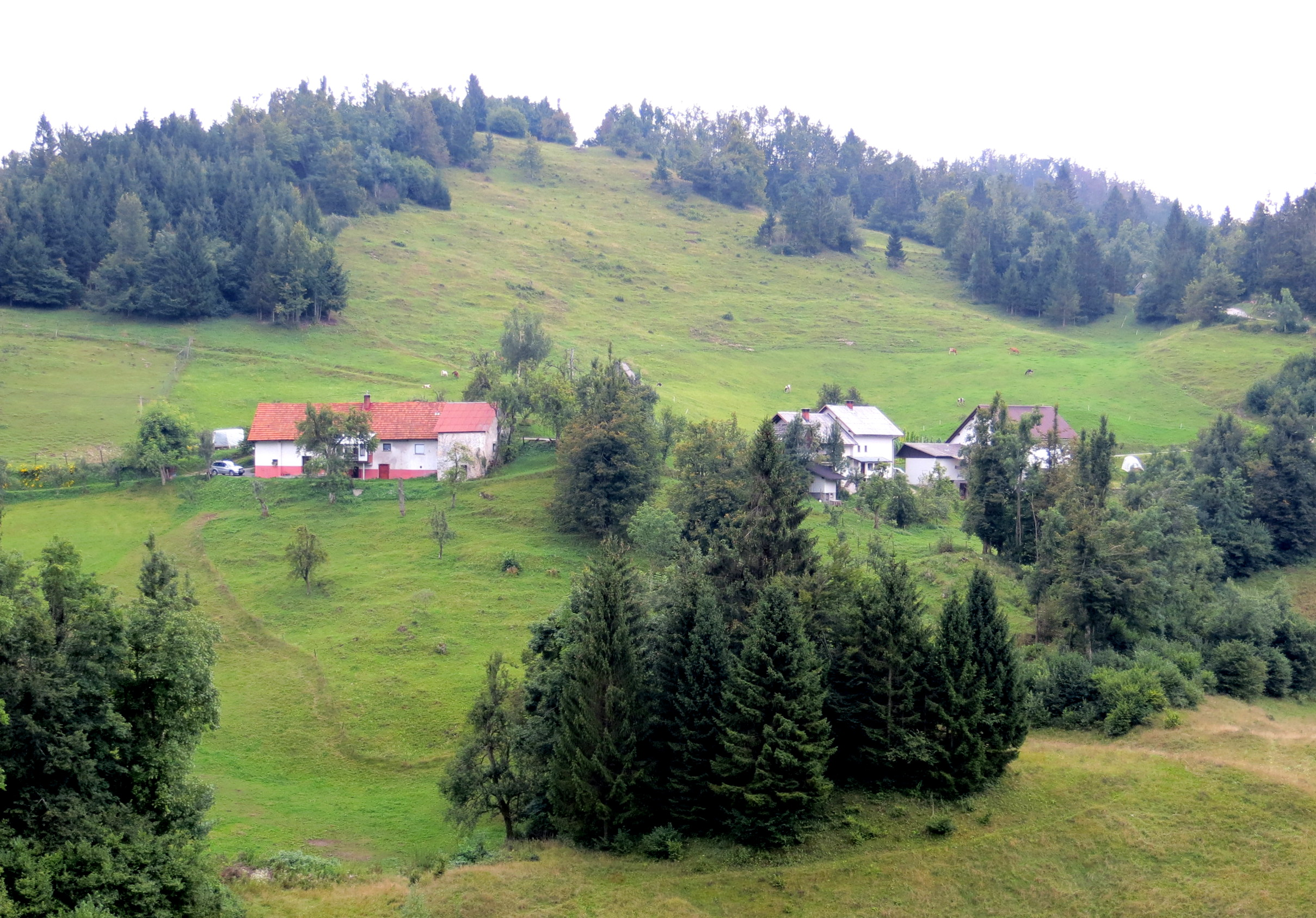 Bukovski Vrh, Municipality of Tolmin, Slovenia